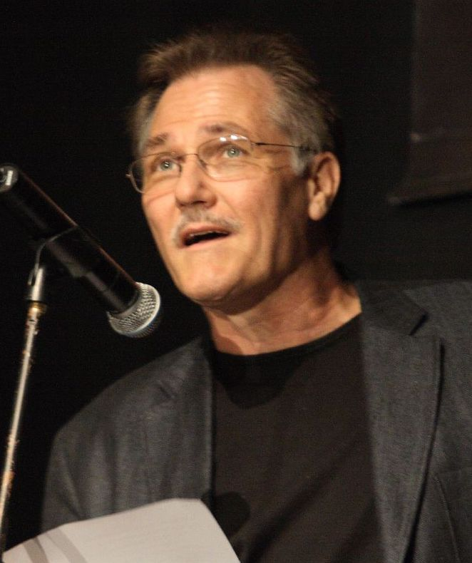 Brian Yuzna in 2007